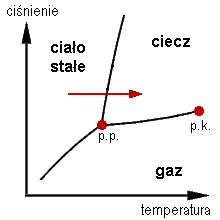 Melting